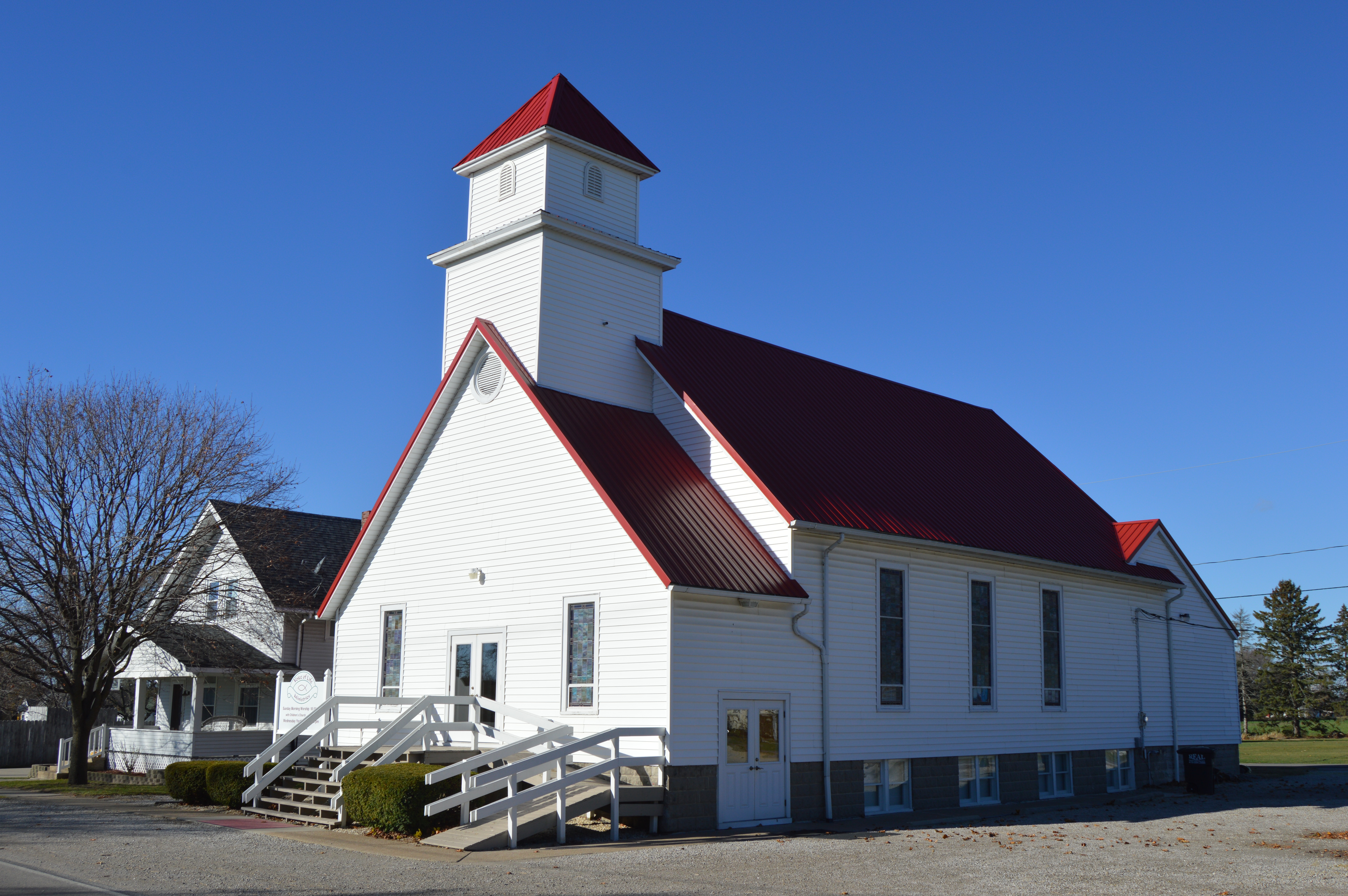 Front and eastern side of the Ayersville United Methodist Church, located at 28047 Ayersville Pleasant Bend Road at Ayersville in Highland Township, Defiance County, Ohio, United States.